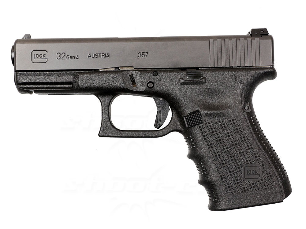 Glock 32 4th generation chambered in .357 SIG